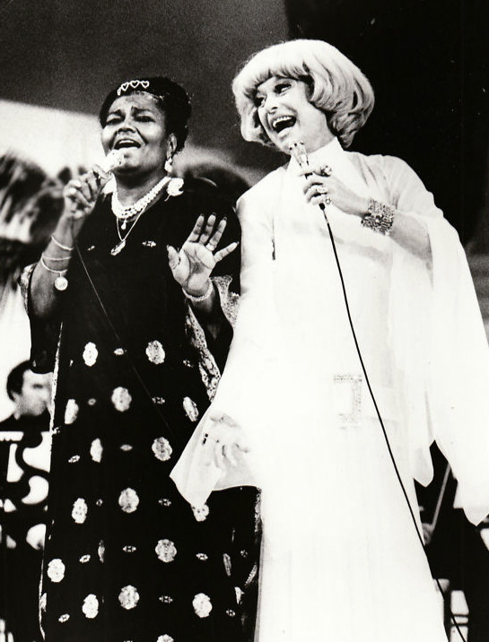 Photo of Pearl Bailey and Carol Channing from the television special One More Time.